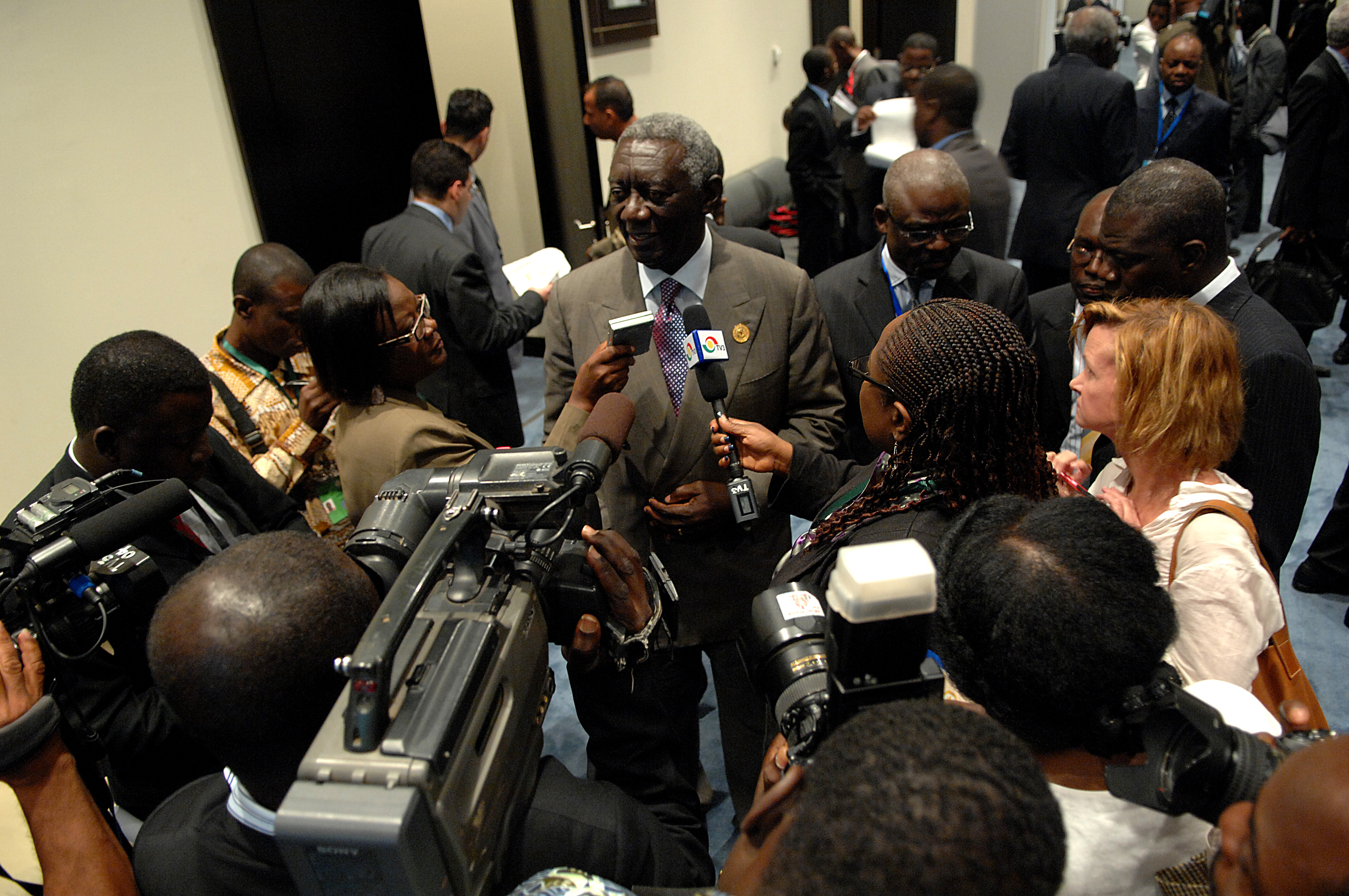 Ghana President John Kufuor speaks with the press during the Eleventh Ordinary Session of the Assembly of the Union at the African Union Summit June 30, 2008, in Sharm El Sheikh, Egypt. The theme of the summit is "Meeting the Millennium Development Goals on Water and Sanitation,” and participants will focus that theme as well as on the increase in the prices of food and agricultural commodities and on the elections in Zimbabwe